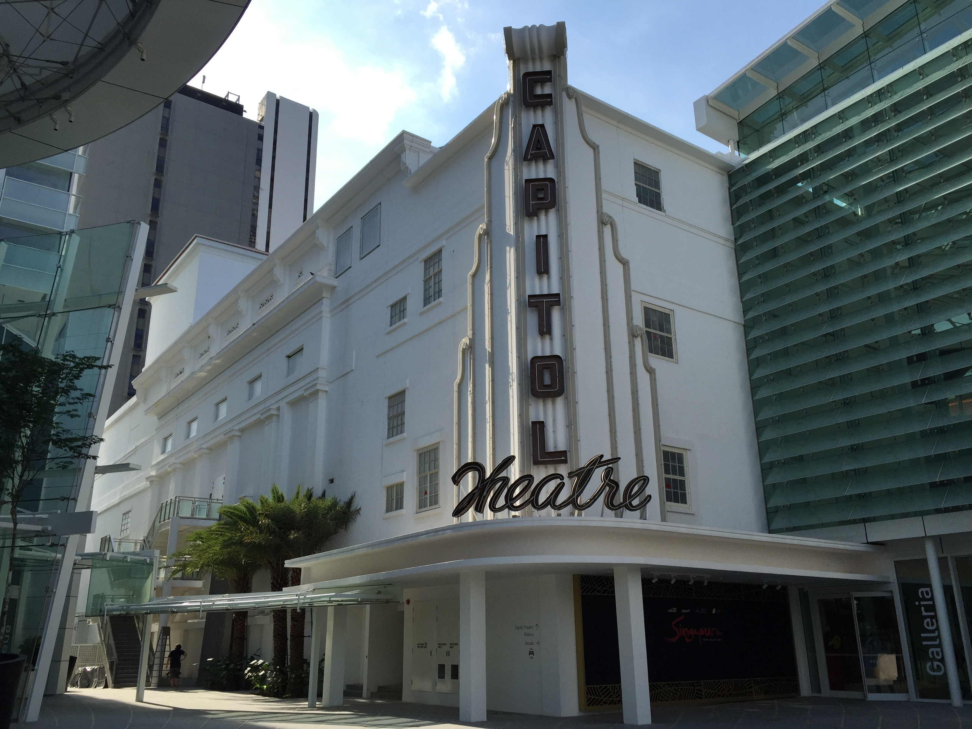 Capitol Theatre at Capitol Piazza, Singapore.